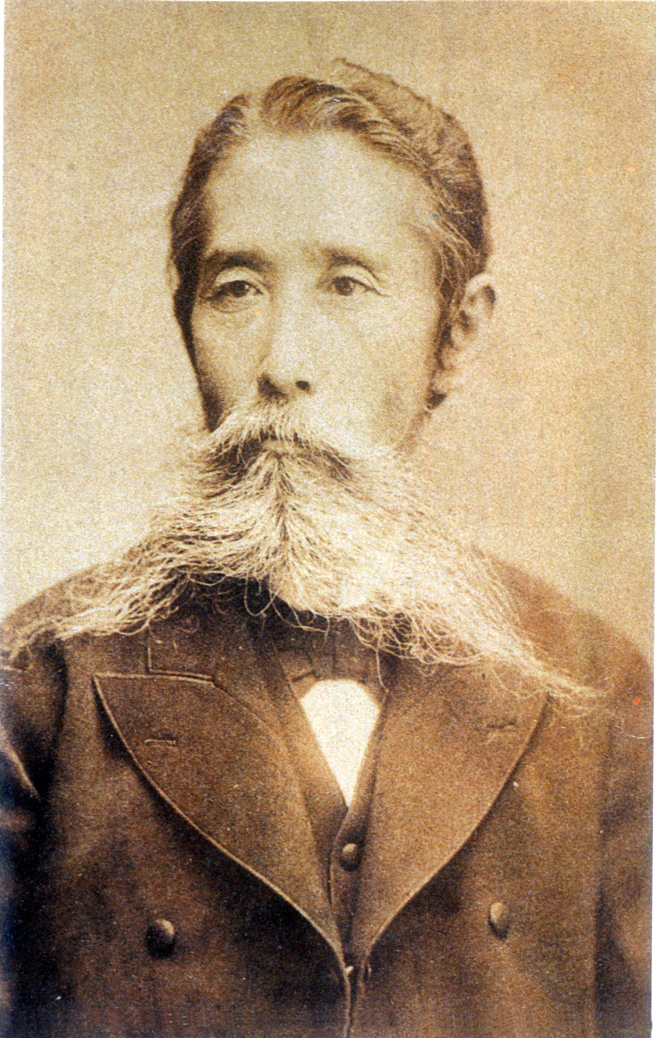 板垣退助 Japanese politician.